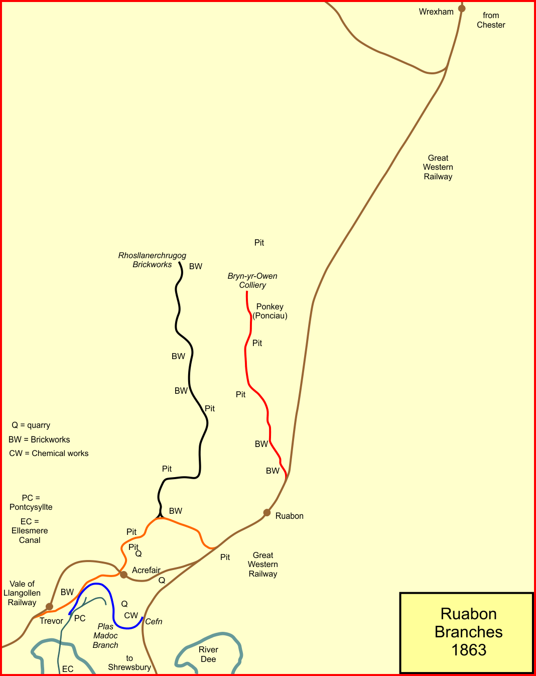 System map of the Railway lines around Ruabon, Wales, in 1863